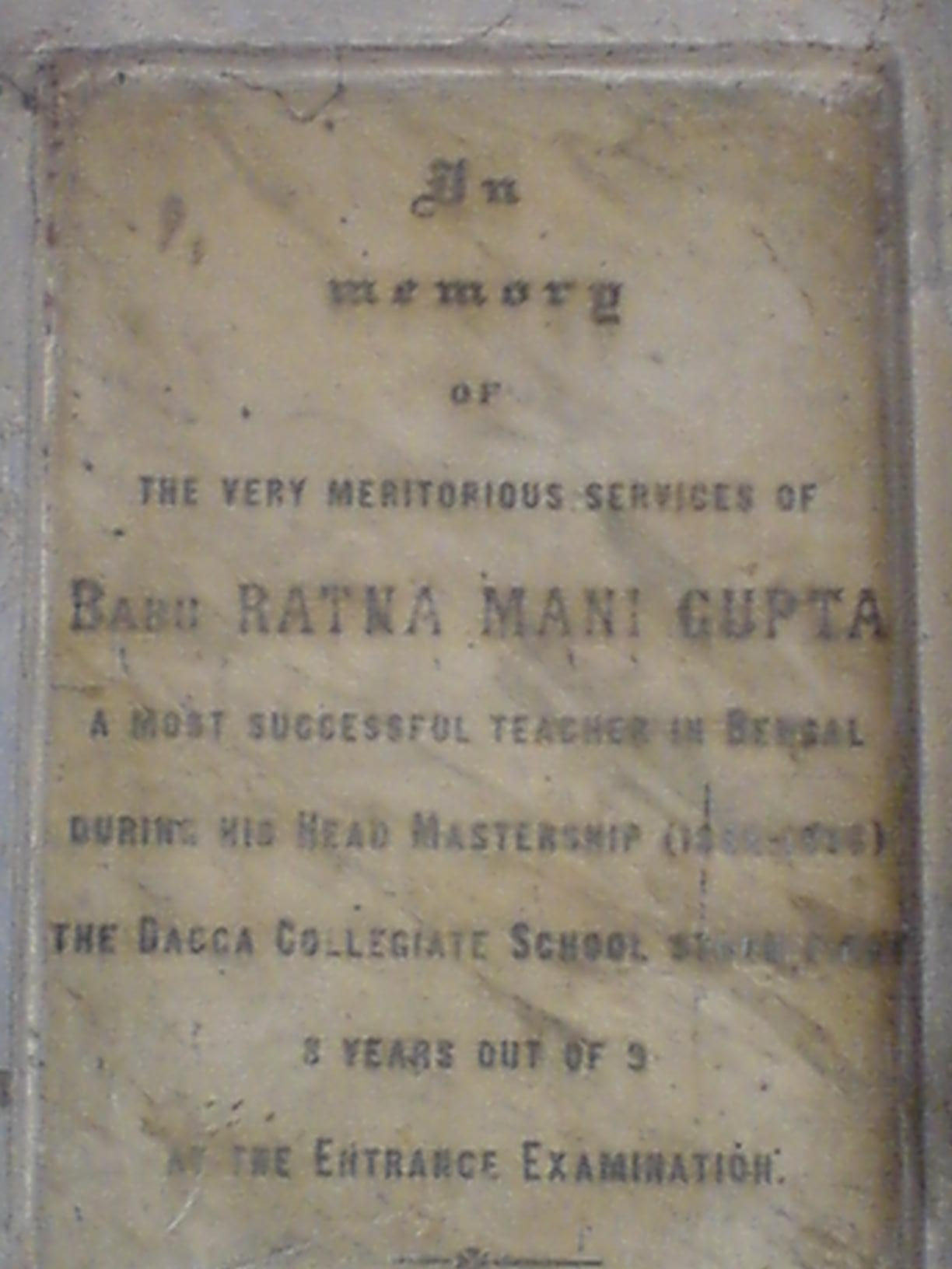 emory stone describing meritorius achivement of Students during Babu Ratna Mani Gupta.